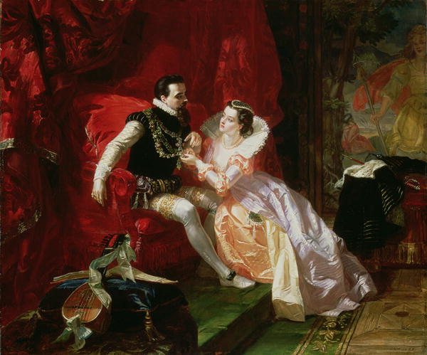 Leicester and Amy Robsart at Cumnor Hall. 1866 Painting of the Historicism school, inspired by Walter Scott's novel Kenilworth.